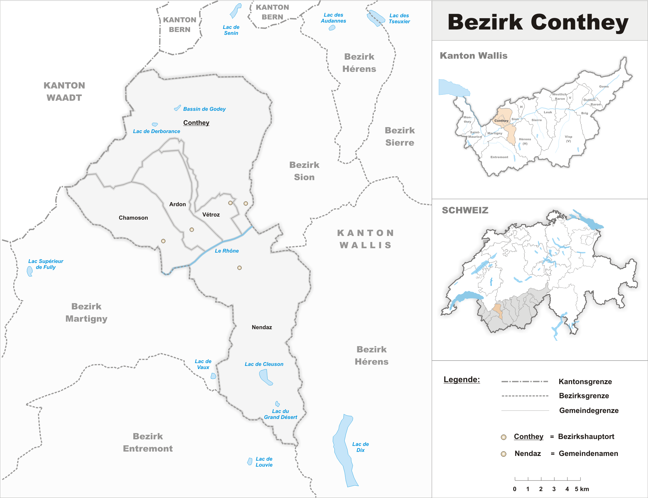 Municipalities in the district of Conthey